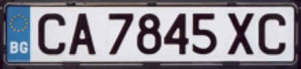 A Bulgarian car license plate with flag of Europe.